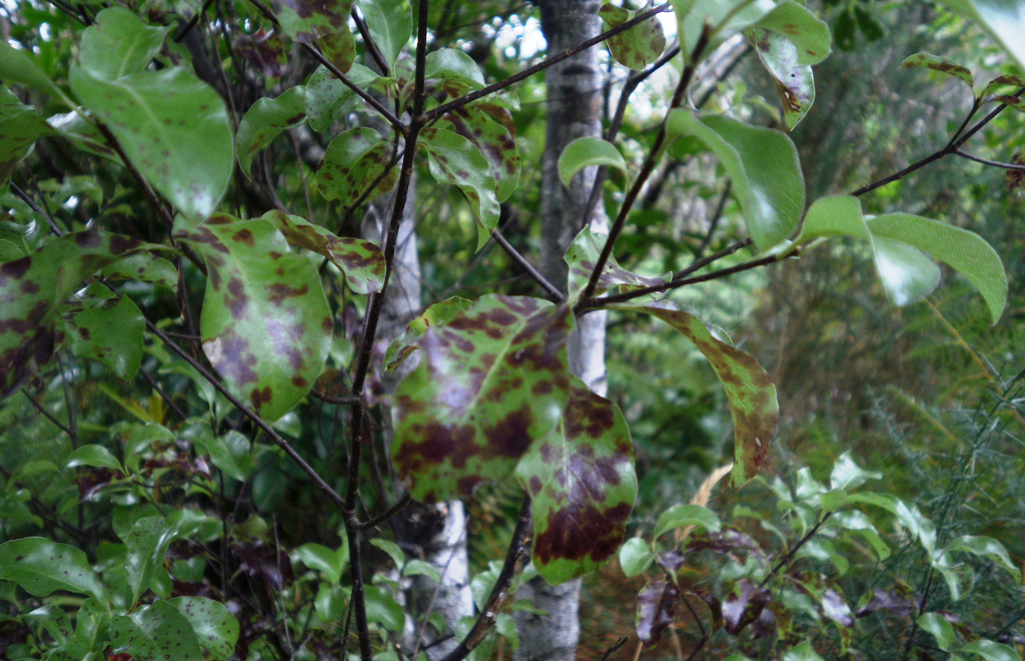 Pittosporum tenuifolium, black matipo, kohuhu foliage on young tree in Upper Hutt bush, New Zealand.